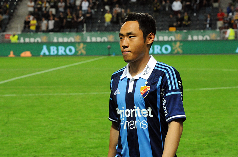 Seon Min Moon